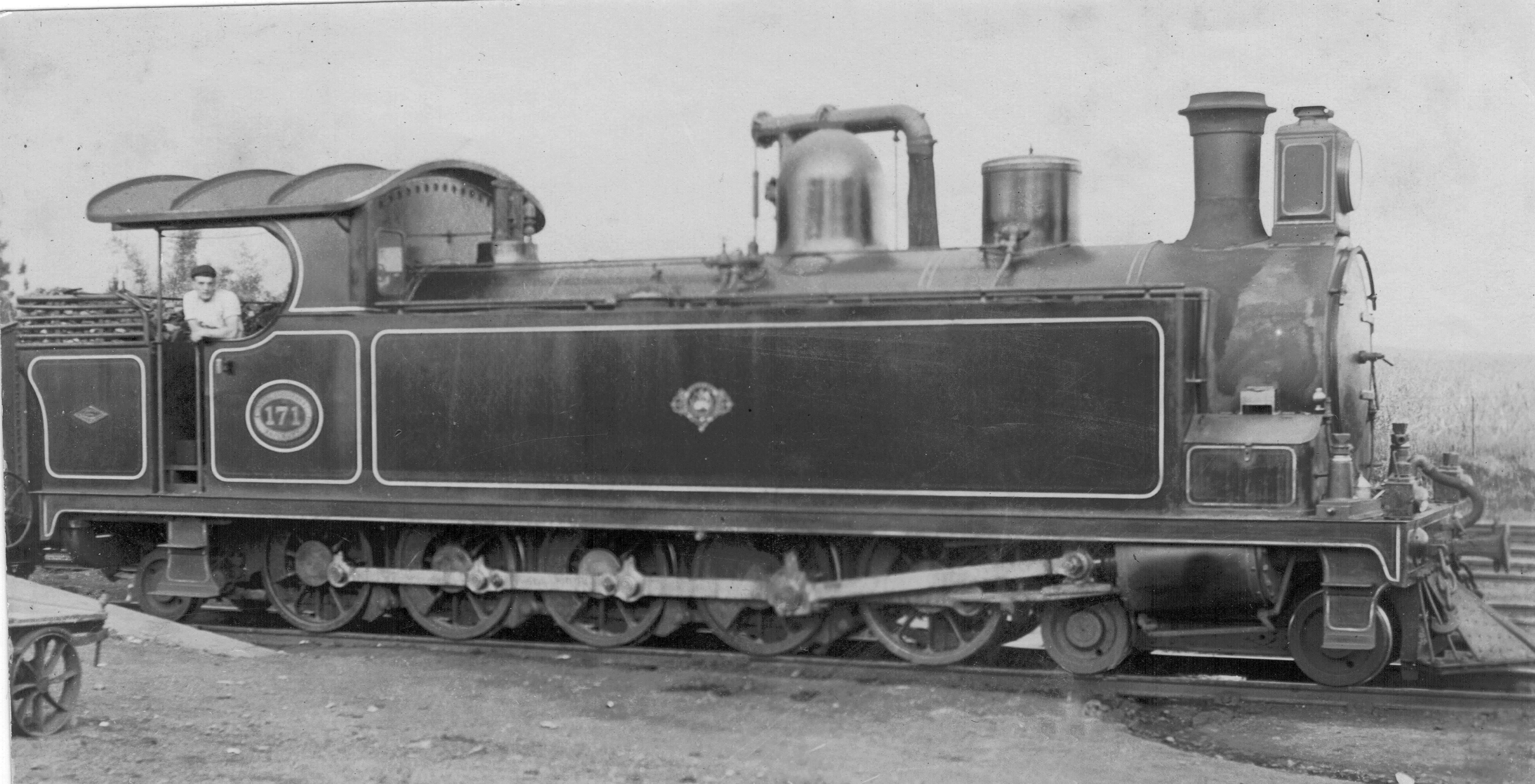 Natal Government Railways Class C 4-10-2T no. 171, later South African Railways Class H no. 253 I found this picture in my late father's papers and I presume he must have received it from his father who started work for the NGR at Thornville Junction in 1903.